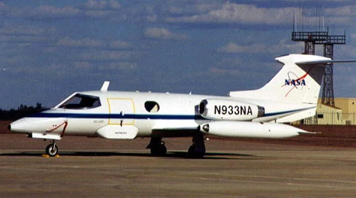 NASA Learjet 23